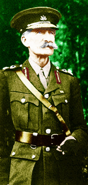 The 14th Earl of Strathmore and Kinghorne in Service Dress, c.Jan 1923. Original artwork created by User:DrKay at the english wikipedia: A black and white image from the London Illustrated News, reprinted as a black and white plate in Hogg and Mortimer (eds.) The Queen Mother Remembered (BBC Books, 2002) has been scanned, cropped, colorized, had missing details (missing or undone button on pocket) added, and saved at a low resolution.